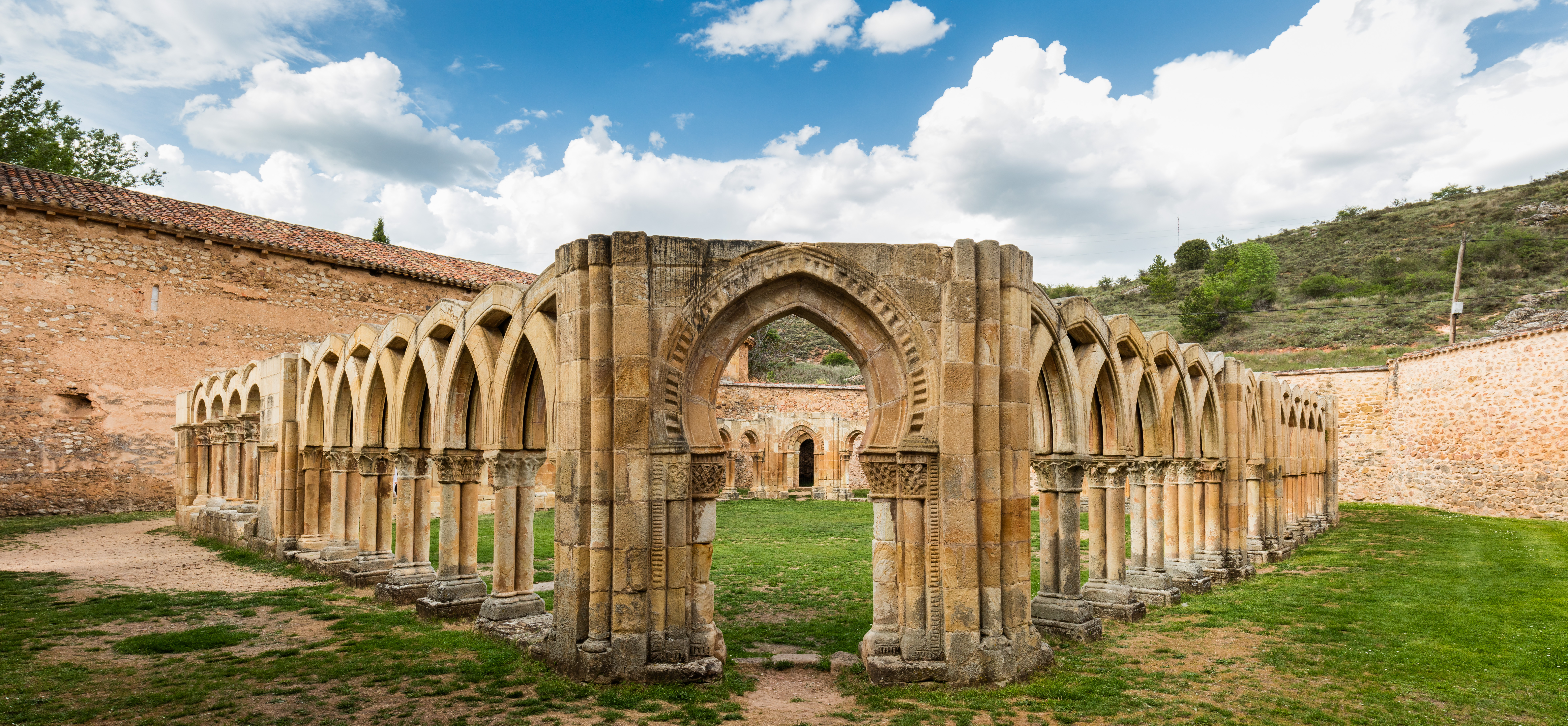 Remains of the Romanesque Monastery of San Juan de Duero, Soria, Spain. The temple, that belonged to the Knights Hospitaller, was erected in the 12th century and inhabitated until the 18th century.